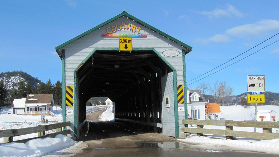 Faubourg bridge, L'Anse-Saint-Jean, QC - Front view